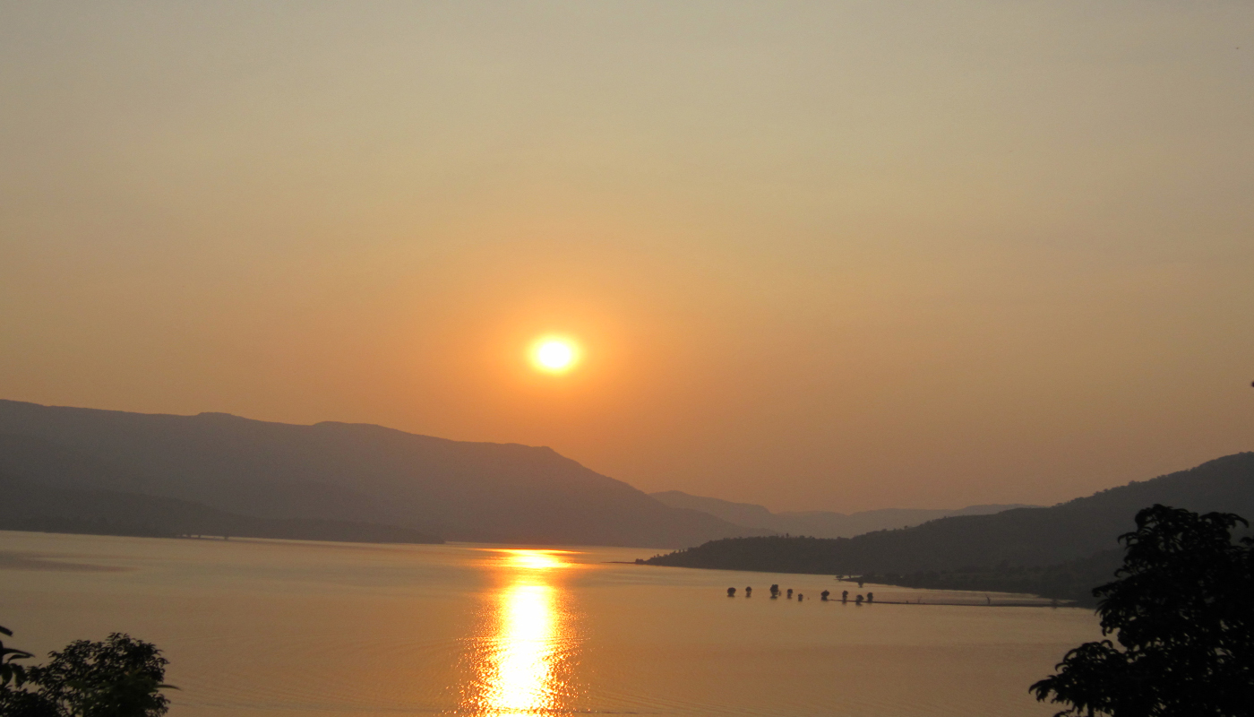 A Sunset view from Naryan Maharaj Math,Bamnoli